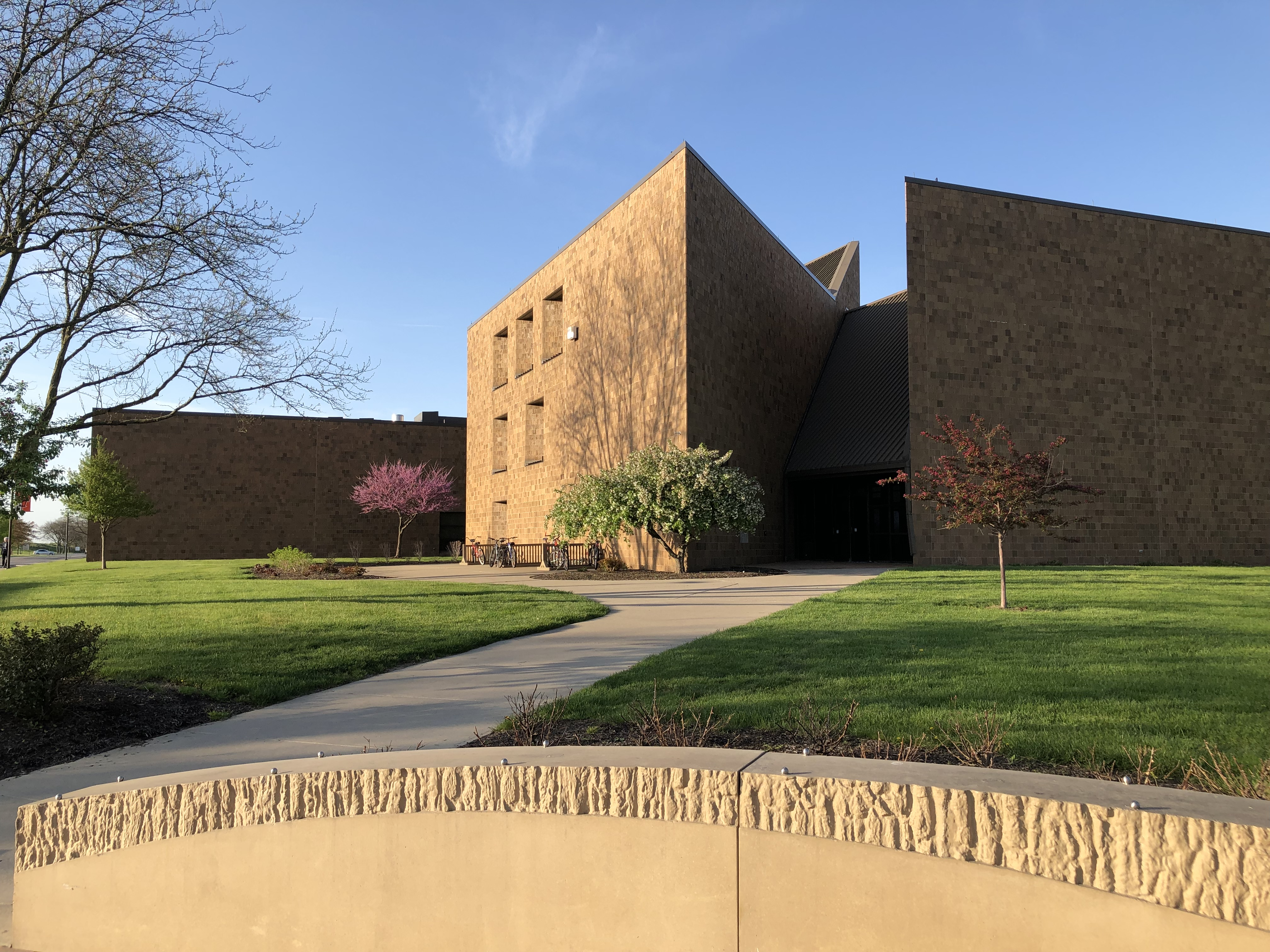 The College of Musical Arts at BGSU